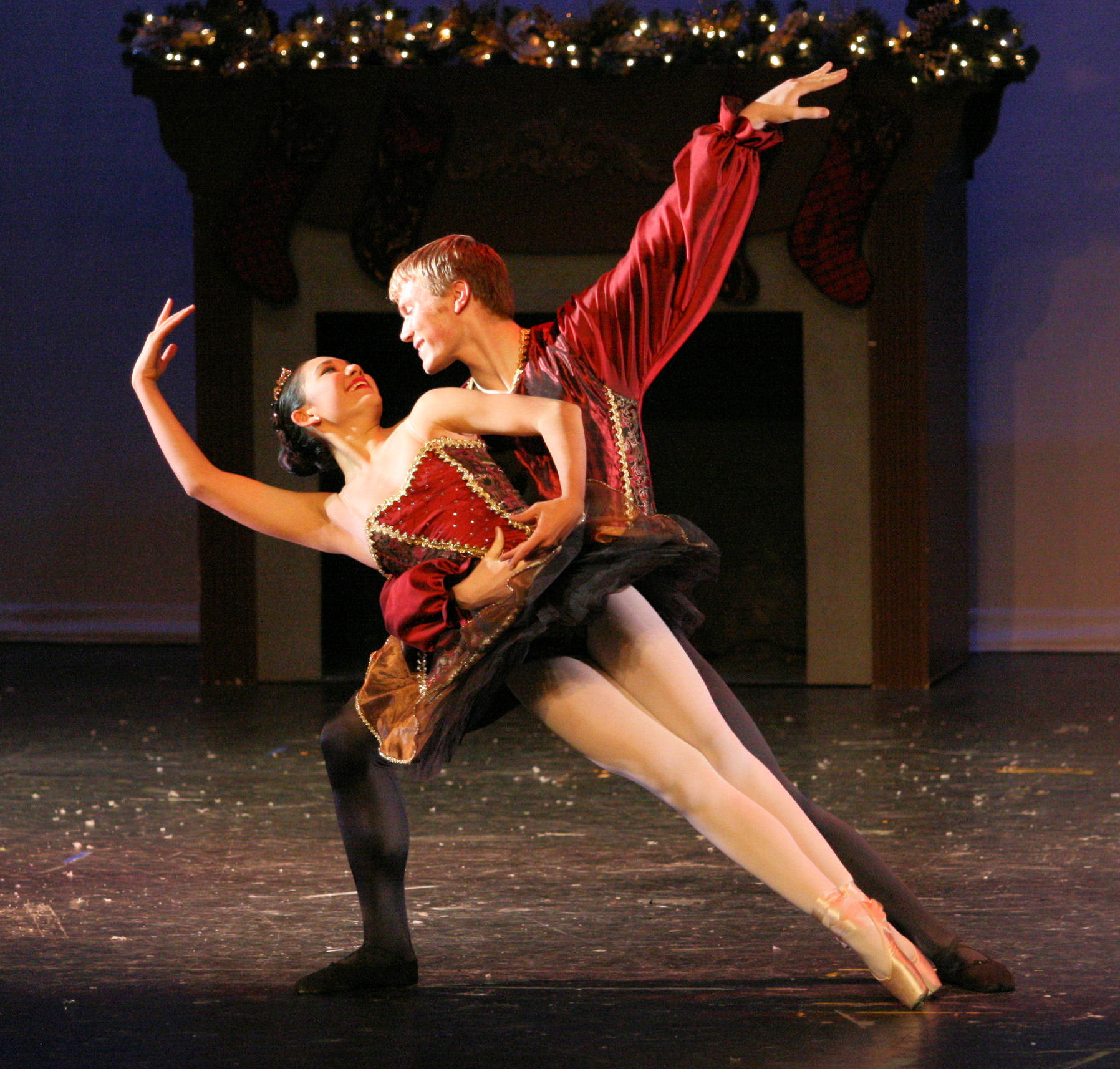 Daria L and Josh perform Grand Pas de Deux in a version of the The Nutcracker, a well-known classical ballet. This image was derived from an original photograph by cropping and adjusting brightness/contrast.